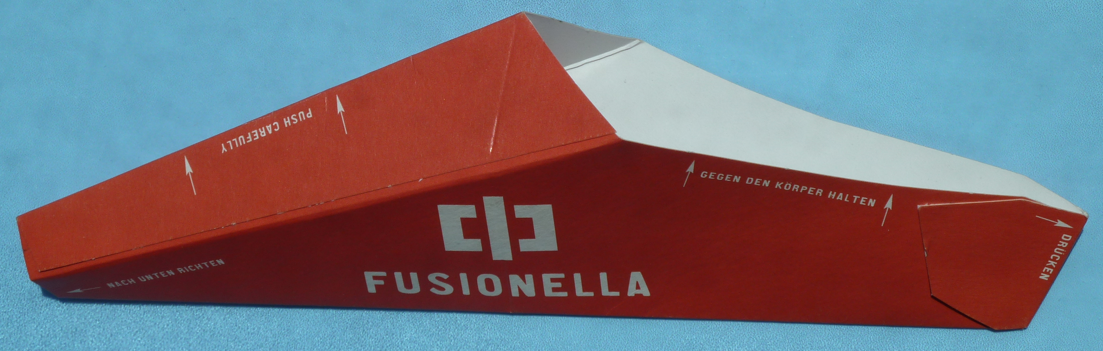 Female urination device, made of carton